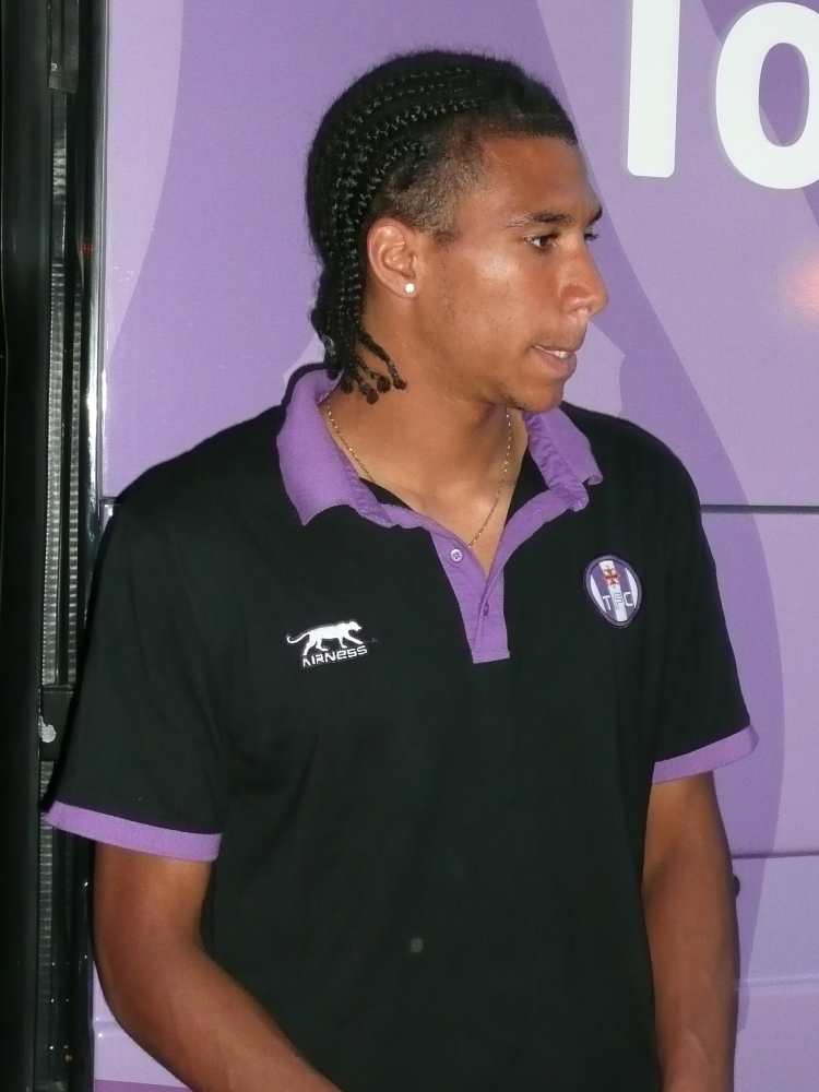 French soccer player